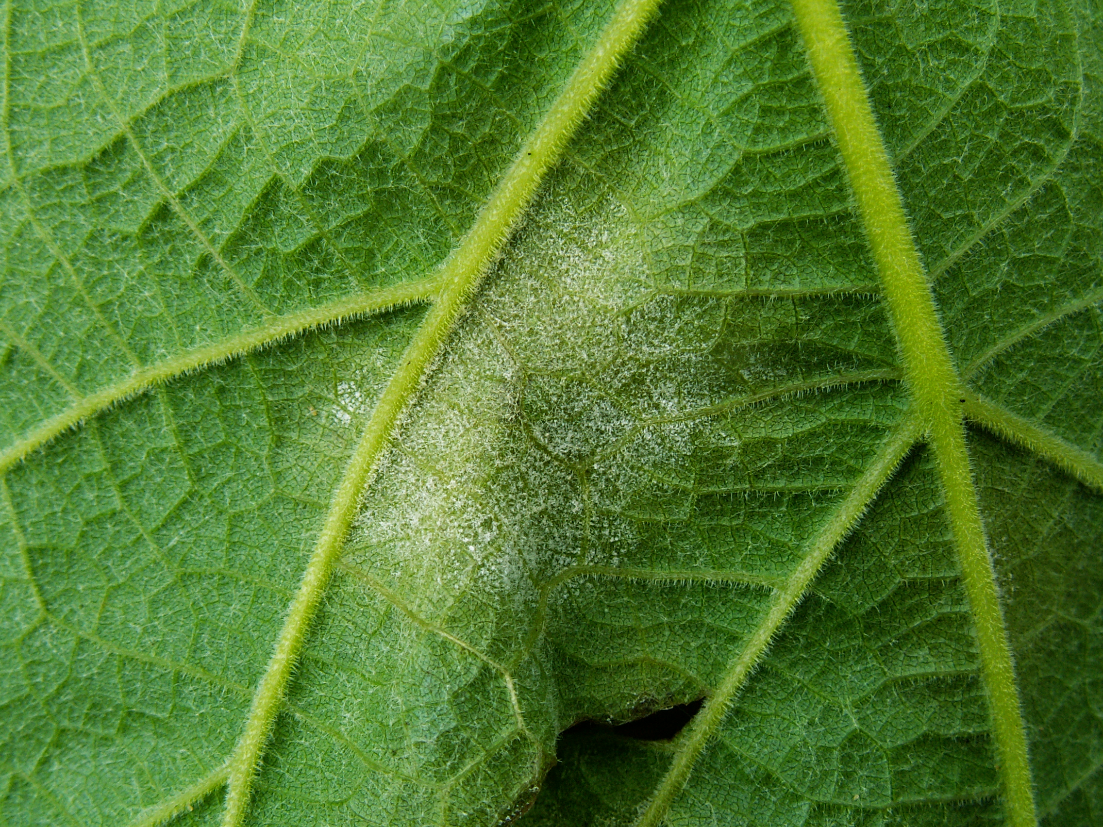 Powdery mildew on a back of a vine leaf